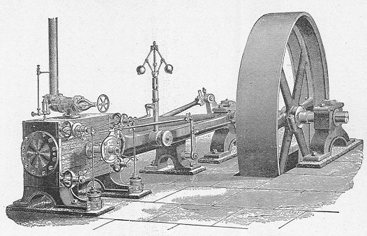 Corliss engine, showing valvegear (New Catechism of the Steam Engine, 1904).jpg